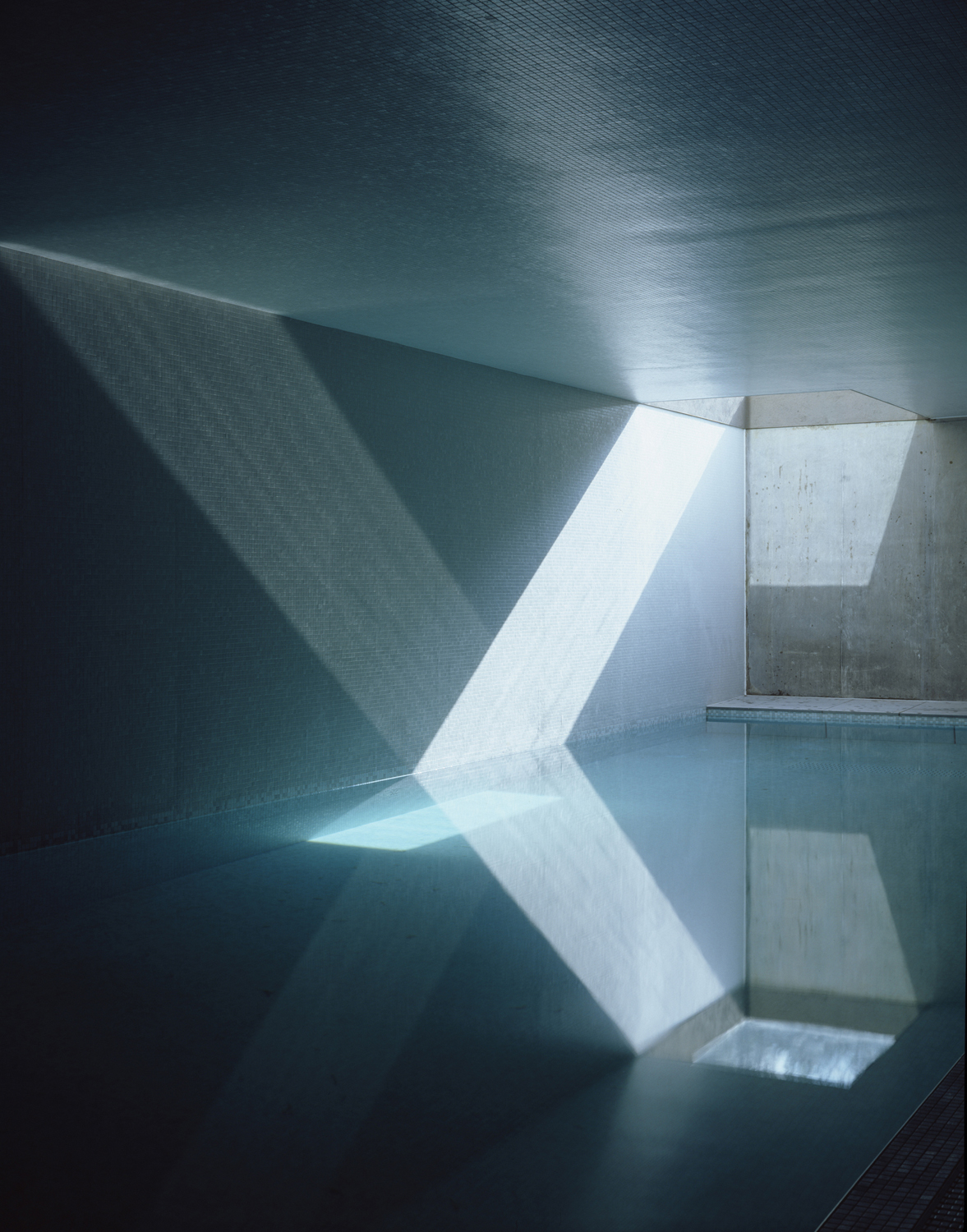 Pool